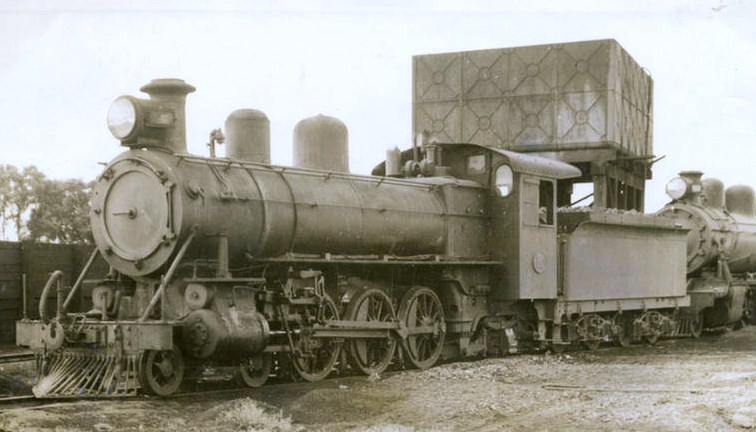 MRWA C class steam locomotive no. C16 at Midland Junction, Western Australia, with the water tower in the background. This photograph was taken before 1949, by which time C16 had been altered in a number of respects, including by the addition of tender side extensions to increase the tender's coal capacity by about one ton. See Rail Heritage WA, Archive Photo Gallery image P6351 for an image of the locomotive in 1949.